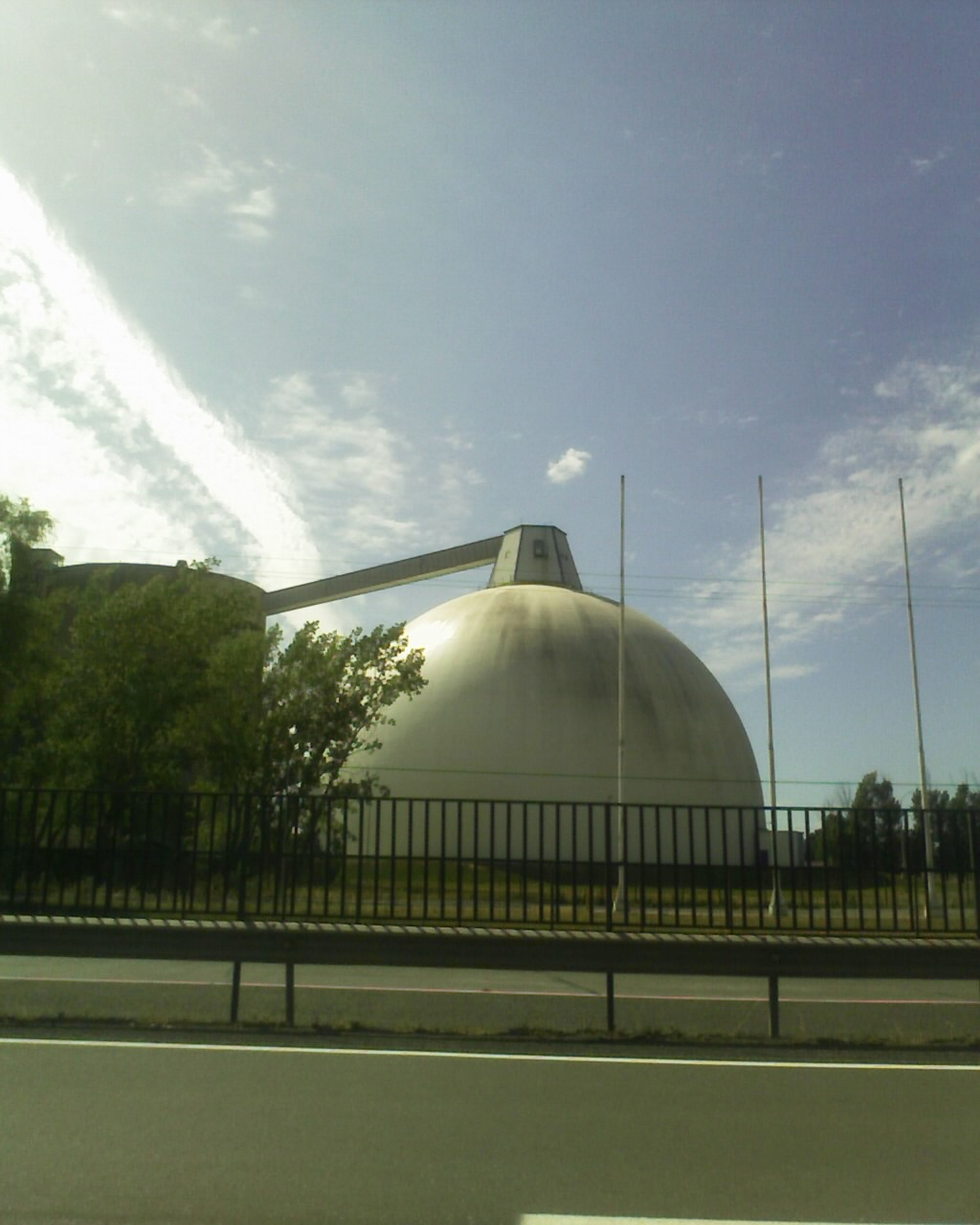 Is a storage Bunker Silo of Sugar in Chile (Iansa)